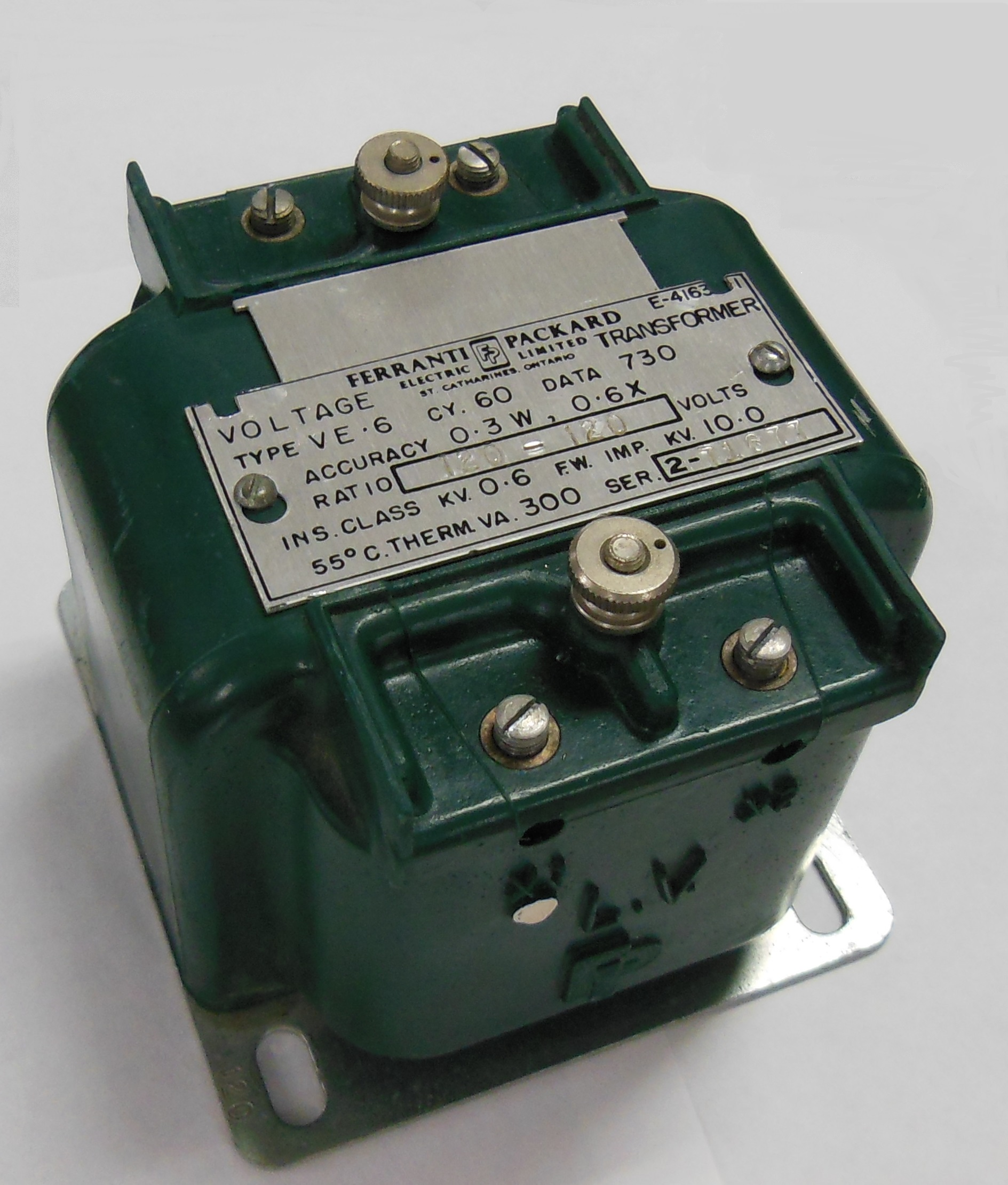 instrument potential transformer showing nameplate, instantaneous polarity markings in two styles (dot and X1) 120:120V; 600Volt class; 0.3W, 0.6X (0.3% and 0.6%) accuracy; isolation for phase shifting potentials.